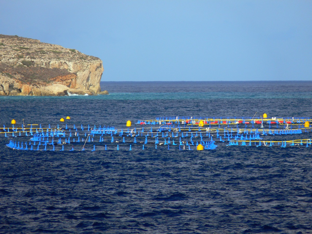 Tuna farm in the Fliegu ta' Malta (South Comino Channel)